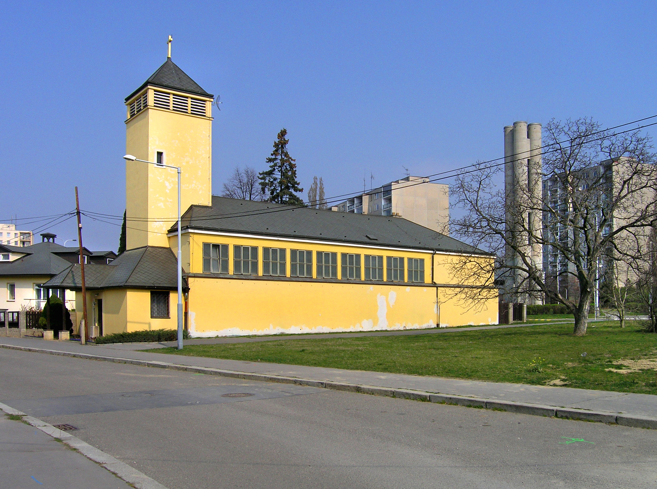 Sv. František z Assisi church at Na Sádce street in Chodov, Prague